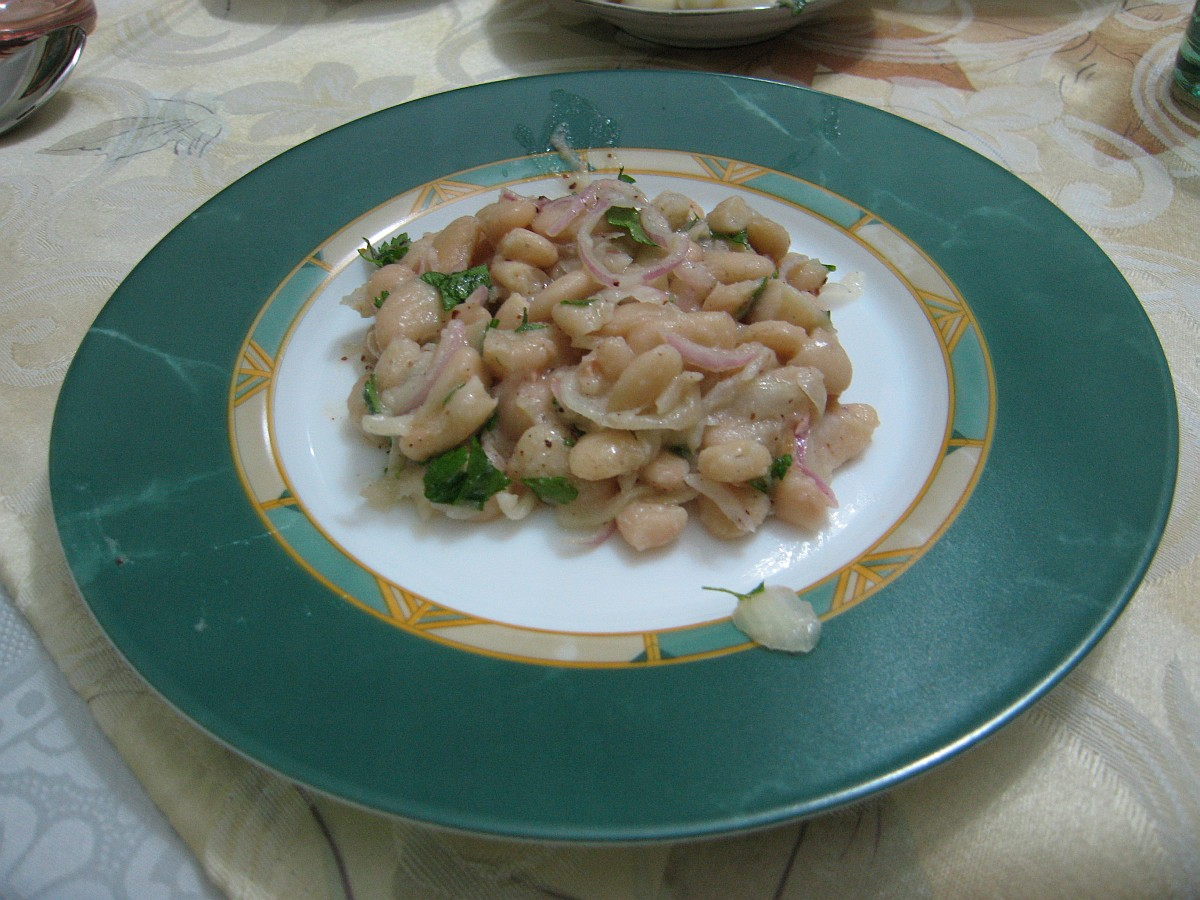 A plate of piyaz, a kind of Turkish salad or meze.